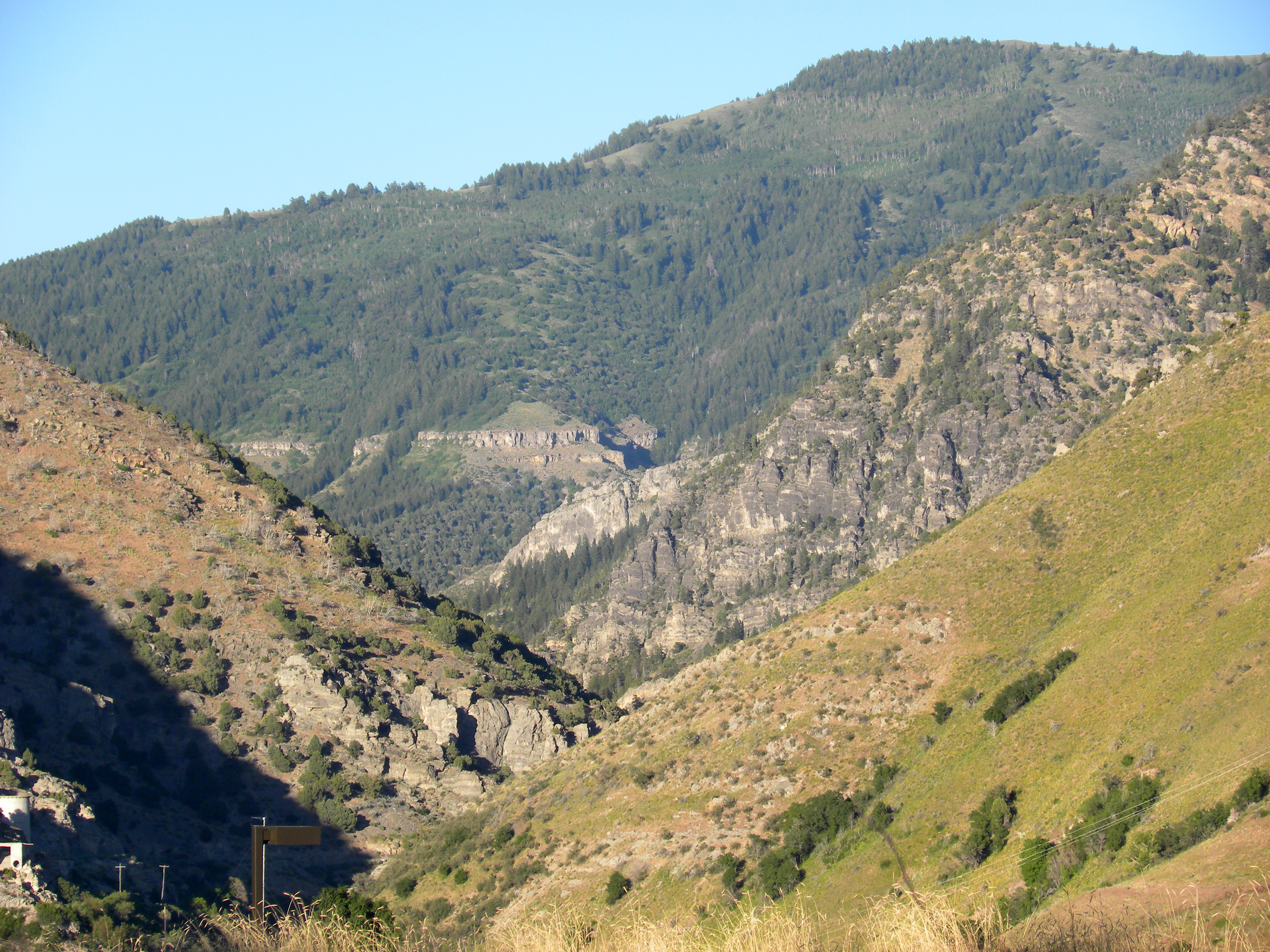 Mouth of Logan Canyon, Utah, viewed from east side of Logan, Utah.